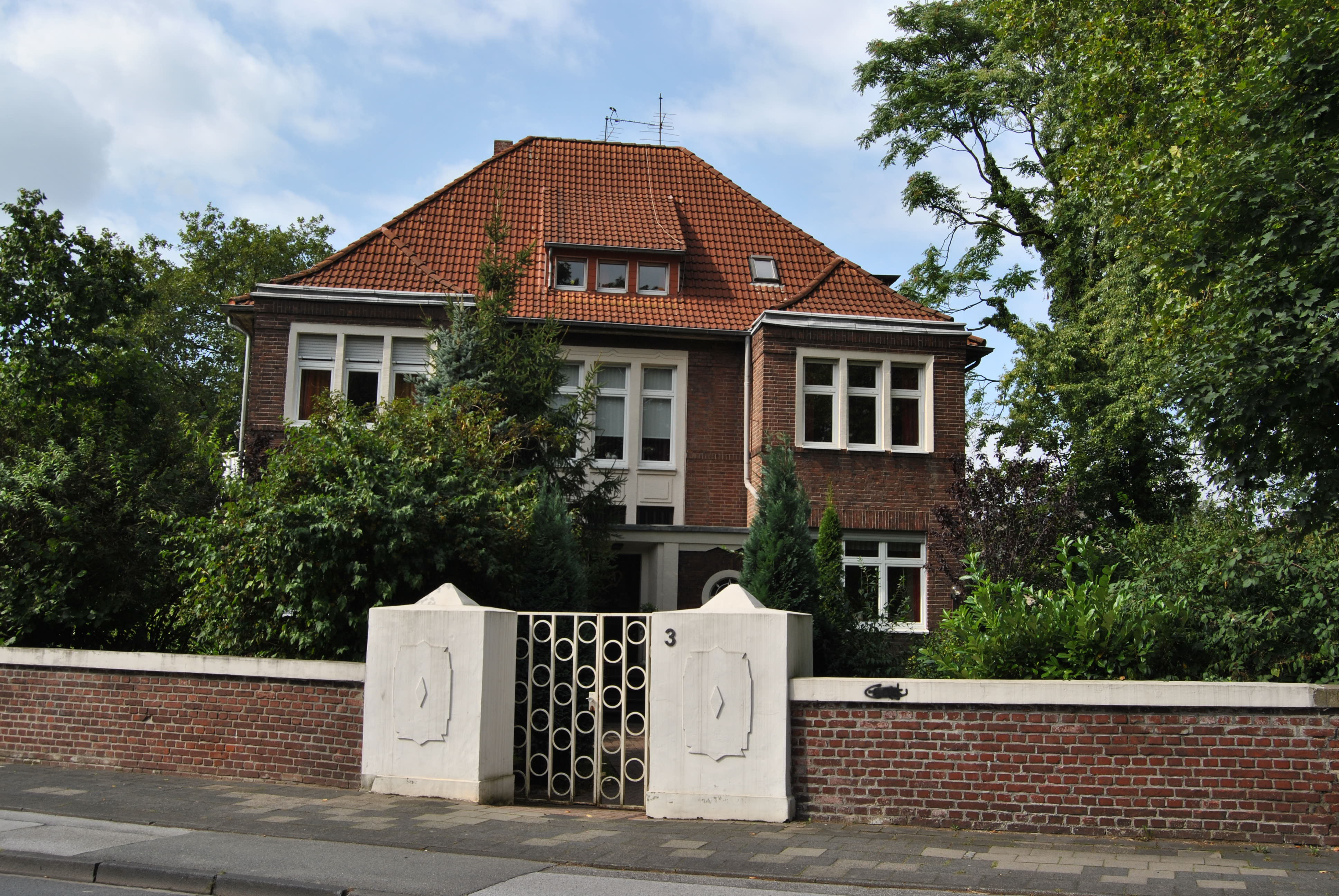 This photograph was taken with a Nikon D3000 This image shows a heritage building in Germany, located in the North Rhine-Westphalian city Duisburg. Denkmalgeschütztes, ehemaliges Beamtenwohnhaus in der Siedlung Schauenplatz in Duisburg-Bergheim